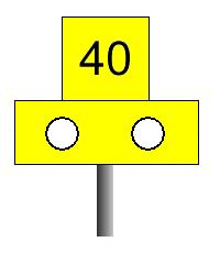 A temporary speed reduction sign. Created by myself in Macromedia Fireworks MX